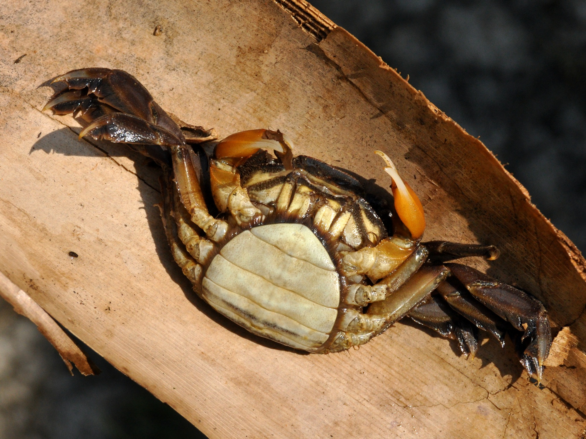 Oceanic paddler crab, Varuna litterata, female, 34 mm CW (carapace width). From Banyumas, Central Java, Indonesia. Abdomen region.